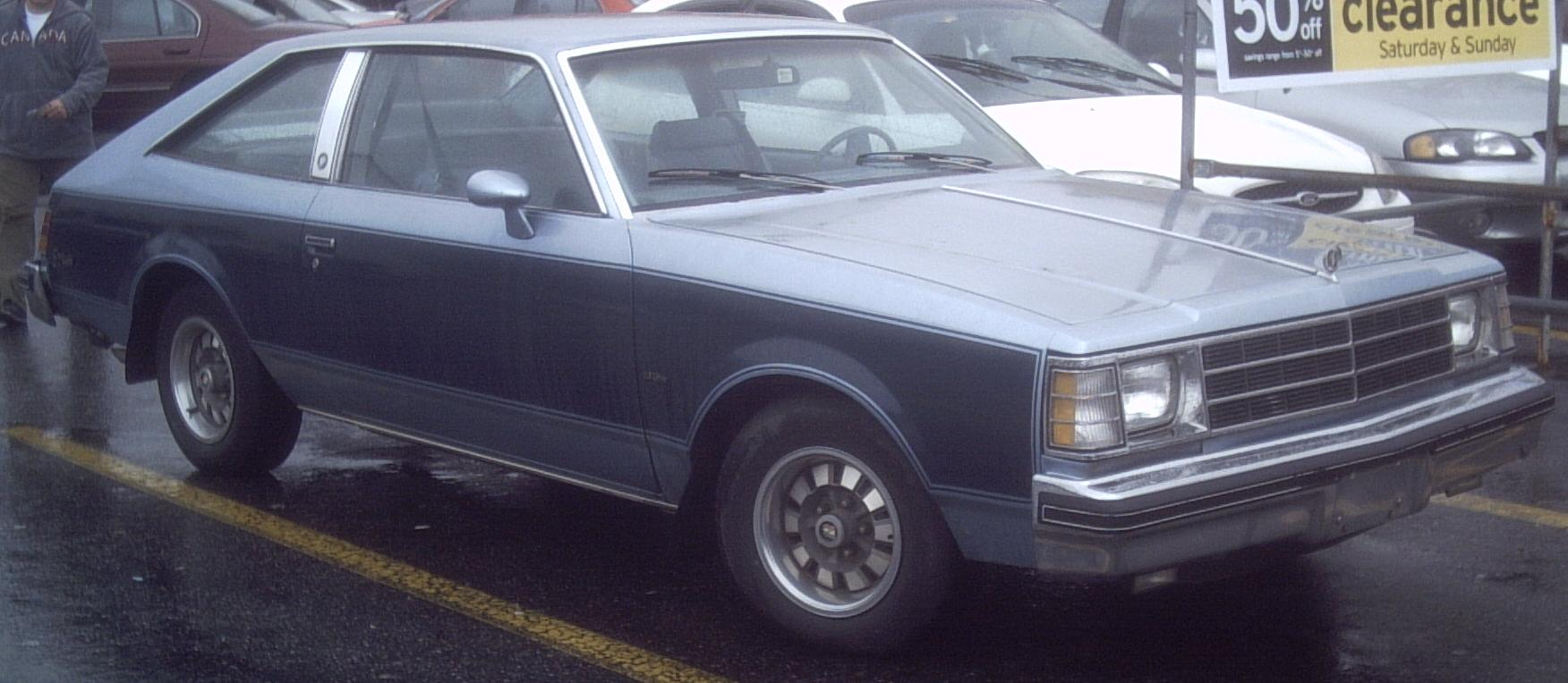 1978-1981 Buick Century photographed in North Carolina, USA.